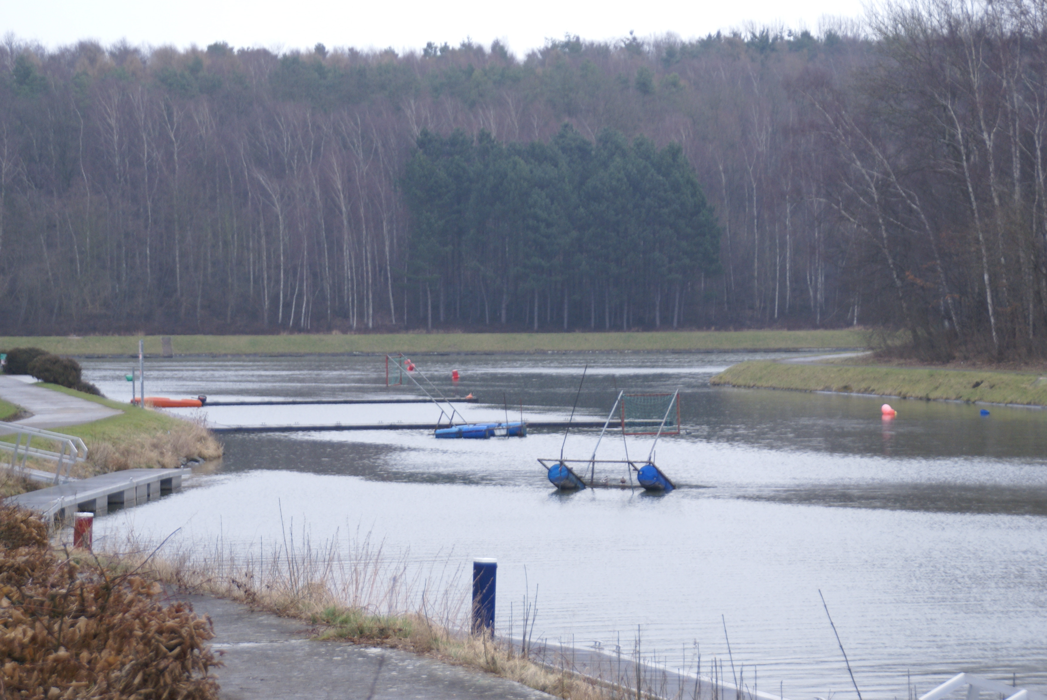 Seneffe (Belgium): The junction of Branche de Bellecourtand the Brussels-Charleroi Canal